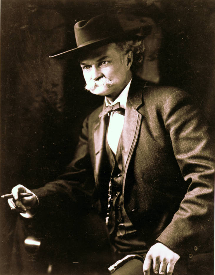 Willard D. Vandiver (Missouri Congressman)